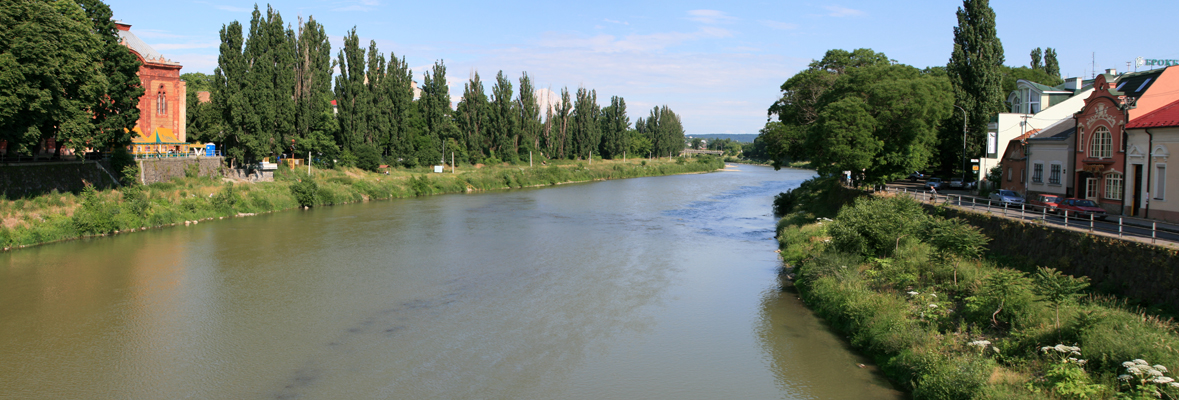 Uzh river in Uzhhorod